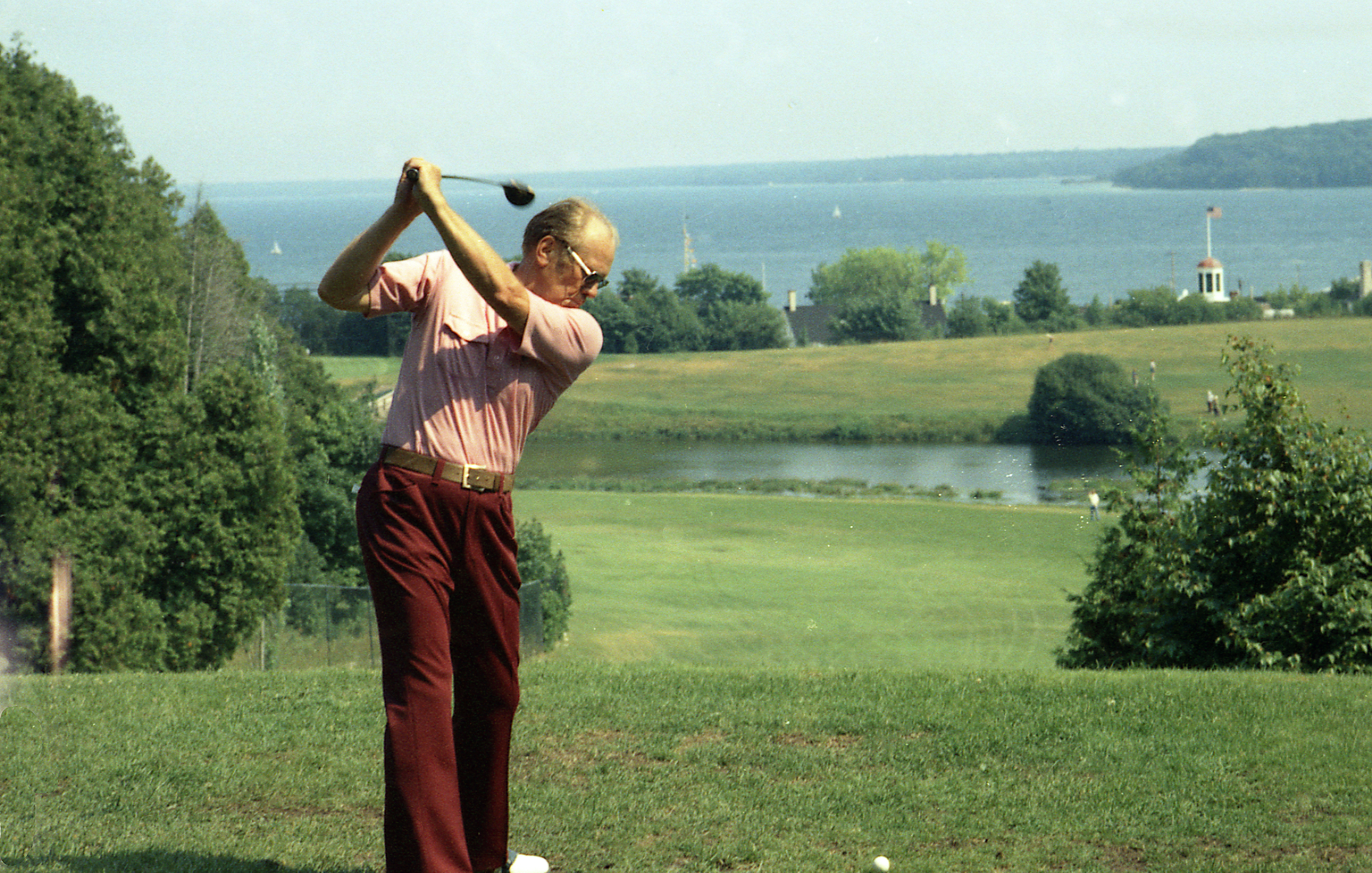 Photograph of President Gerald R. Ford playing golf during a working vacation on Mackinac Island in Michigan. Judging by the landscape (you can see what appears to be the cupola of the Mackinac Island Courthouse in the upper right of the image, as well as the north coastline of Round Island), it would appear that he is golfing at 'The Jewel'